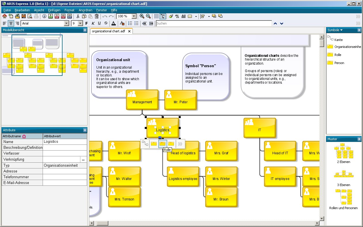 Screenshot of ARIS Express showing the modelling part (here an organisational chart) (English user interface version)